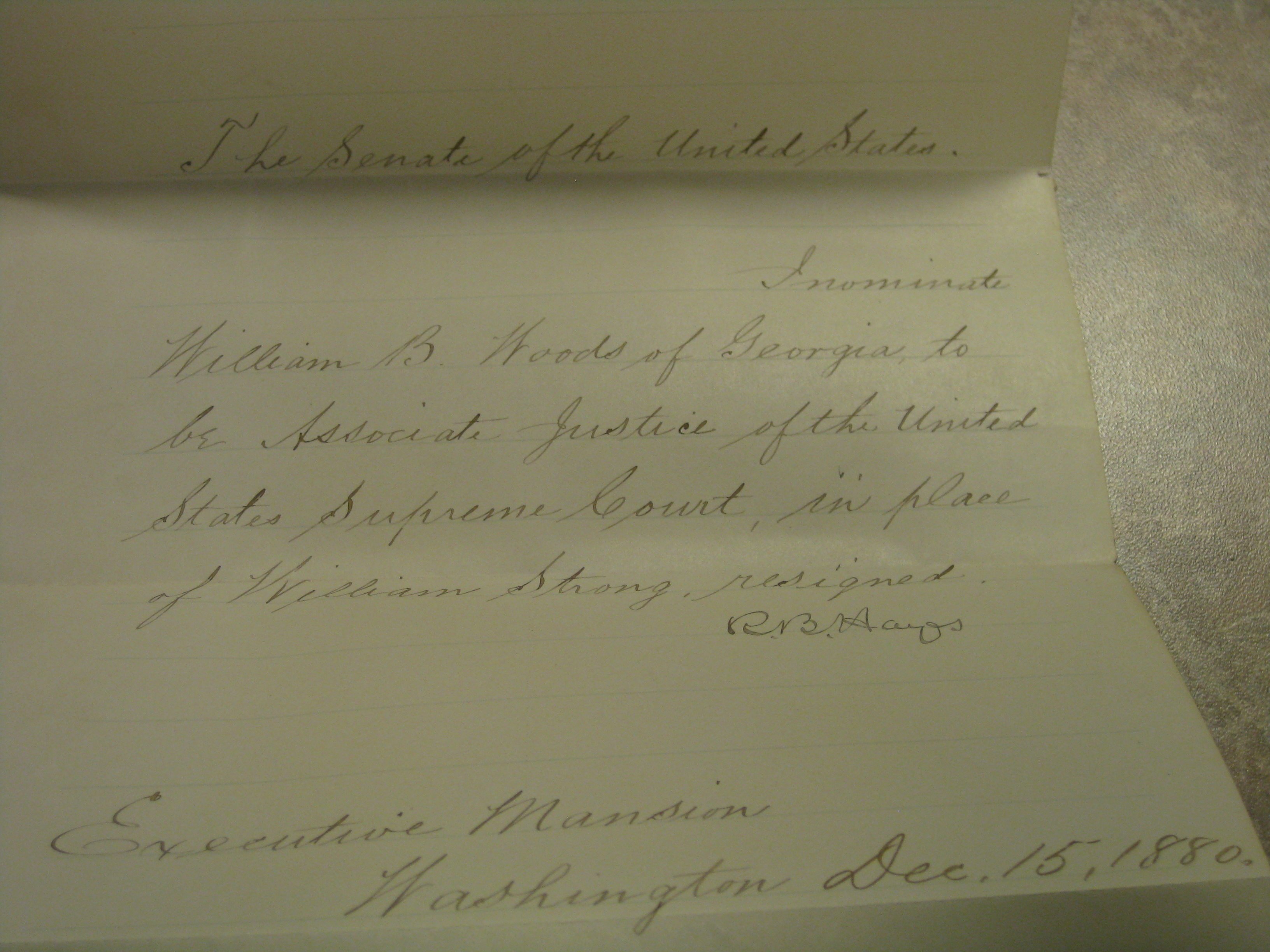 Rutherford B. Hayes's nomination of William Woods to serve on the U.S. Supreme Court. Courtesy of the National Archives and Records Administration.